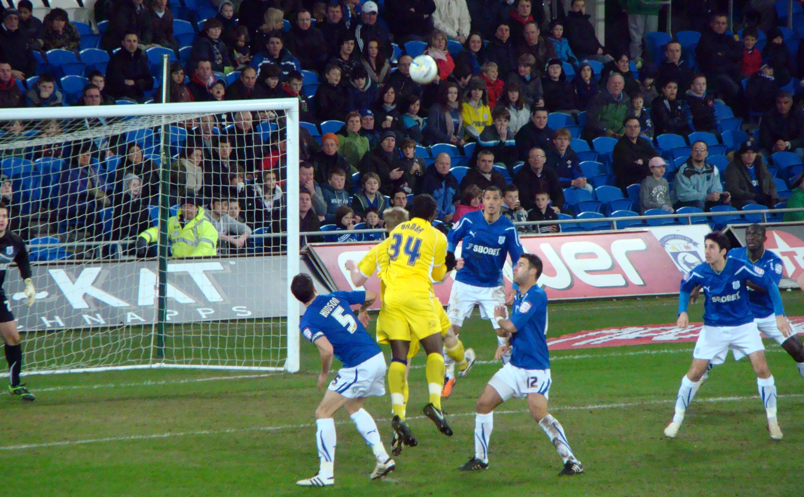 22/02/11 Cardiff V Leicester, Championship, Cardiff City Stadium, Cardiff, Wales